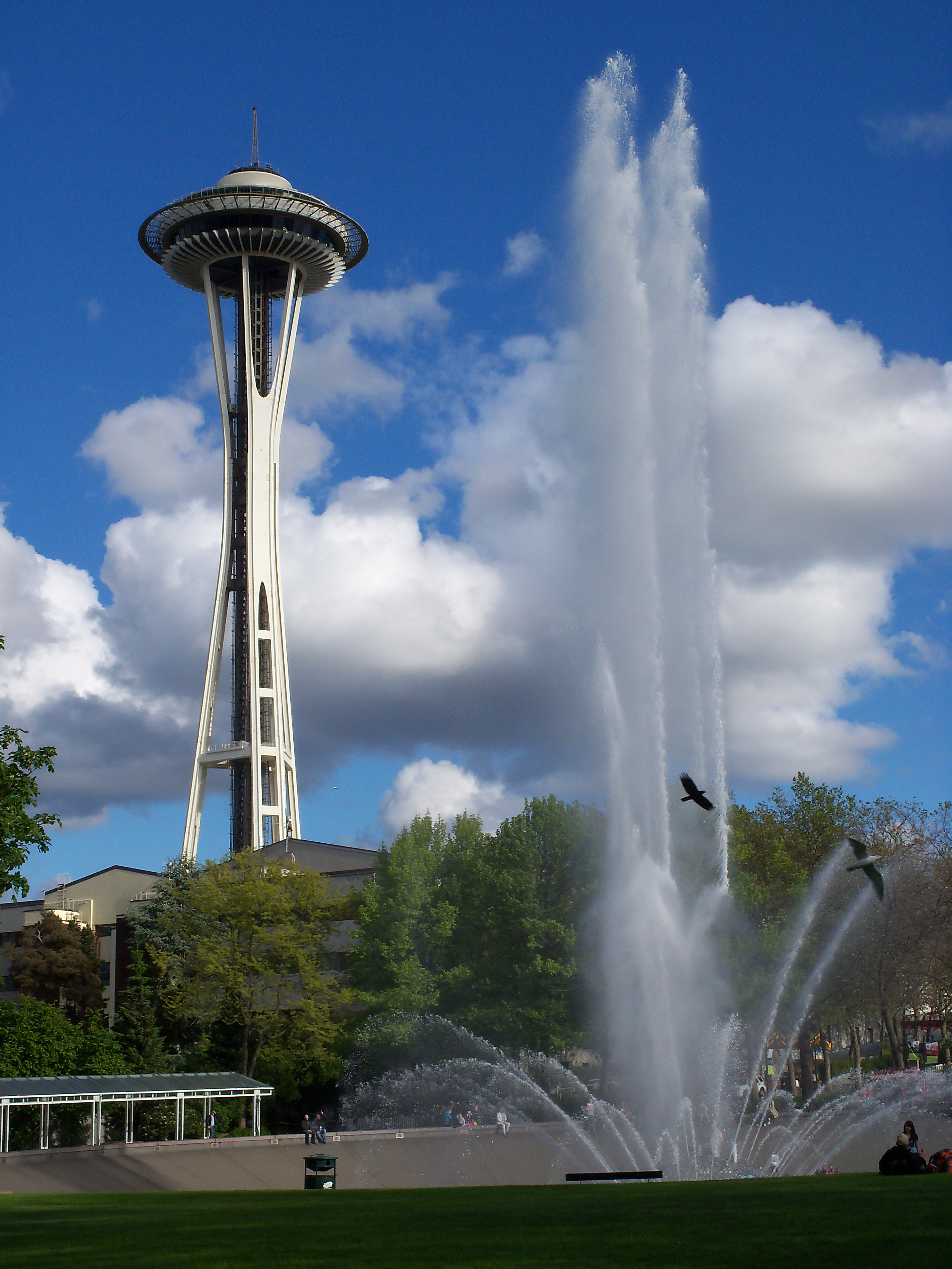 Seattle Space Needle, with the International Fountain spouting to its peak height.